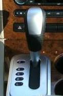 Ford Five Hundred interior focused on the automatic transmission. This is taken by me in my friends car, and I realase it into public domain.